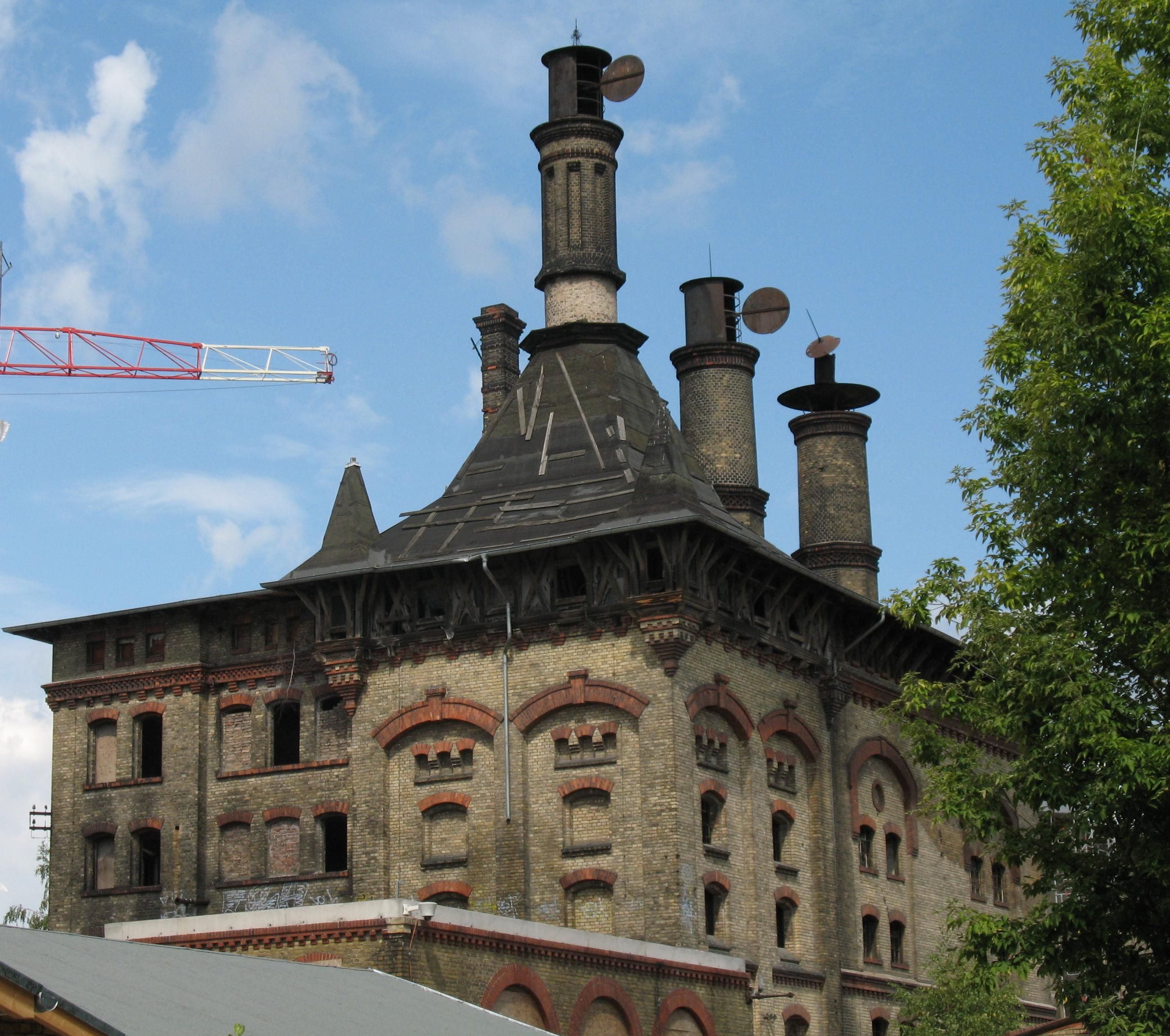 Former malthouse in Berlin-Pankow, Germany